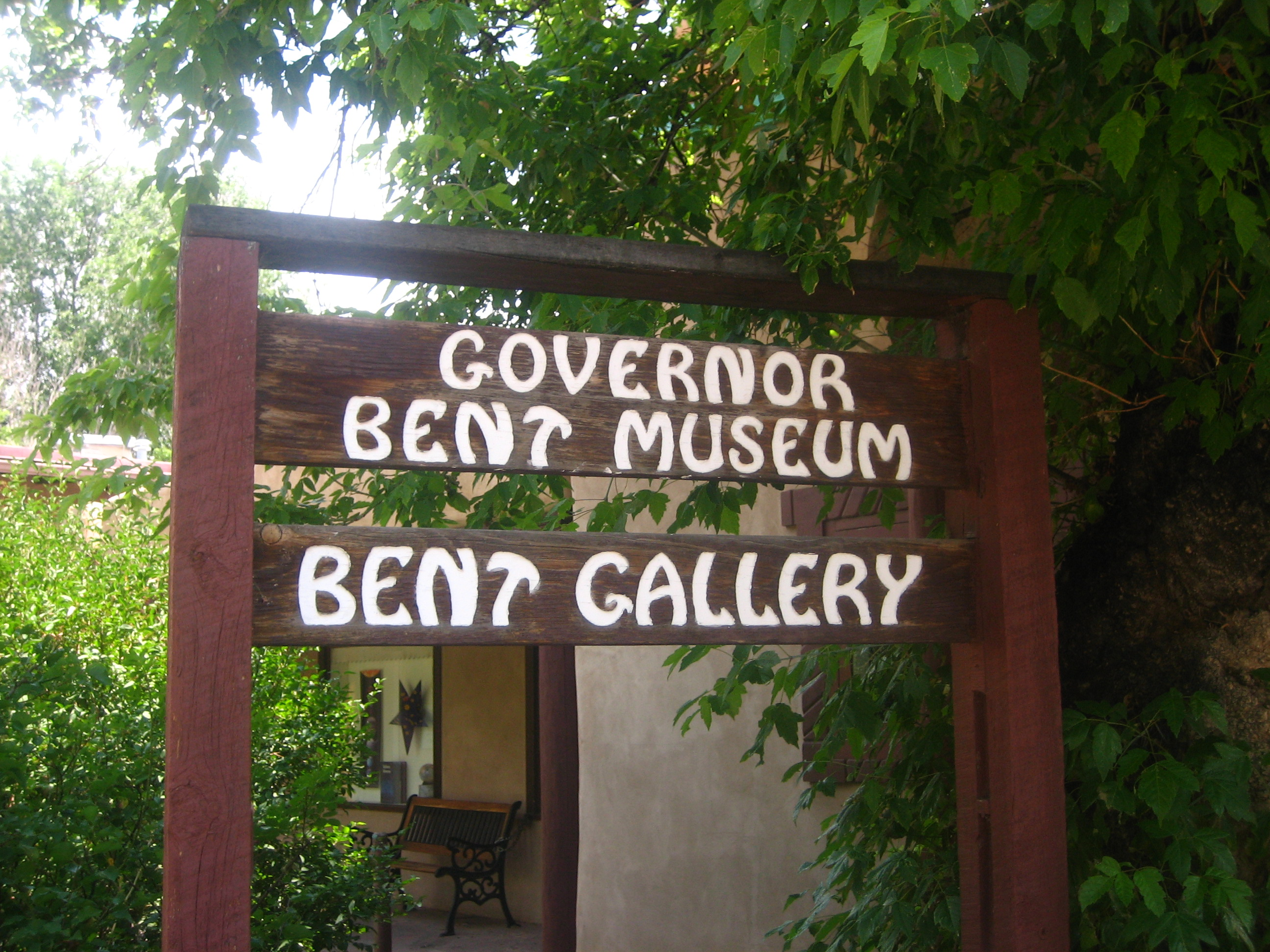 I took photo on July 13, 2008.Billy Hathorn (talk) 15:21, 9 July 2009 (UTC)